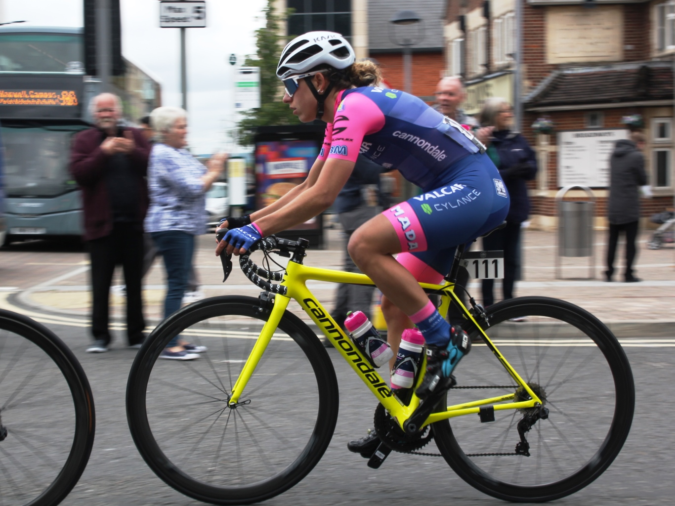 Alice Maria Arzuffi of the Valcar-Cylance team rides through Didcot on the third day of the Women's Tour in 2019.